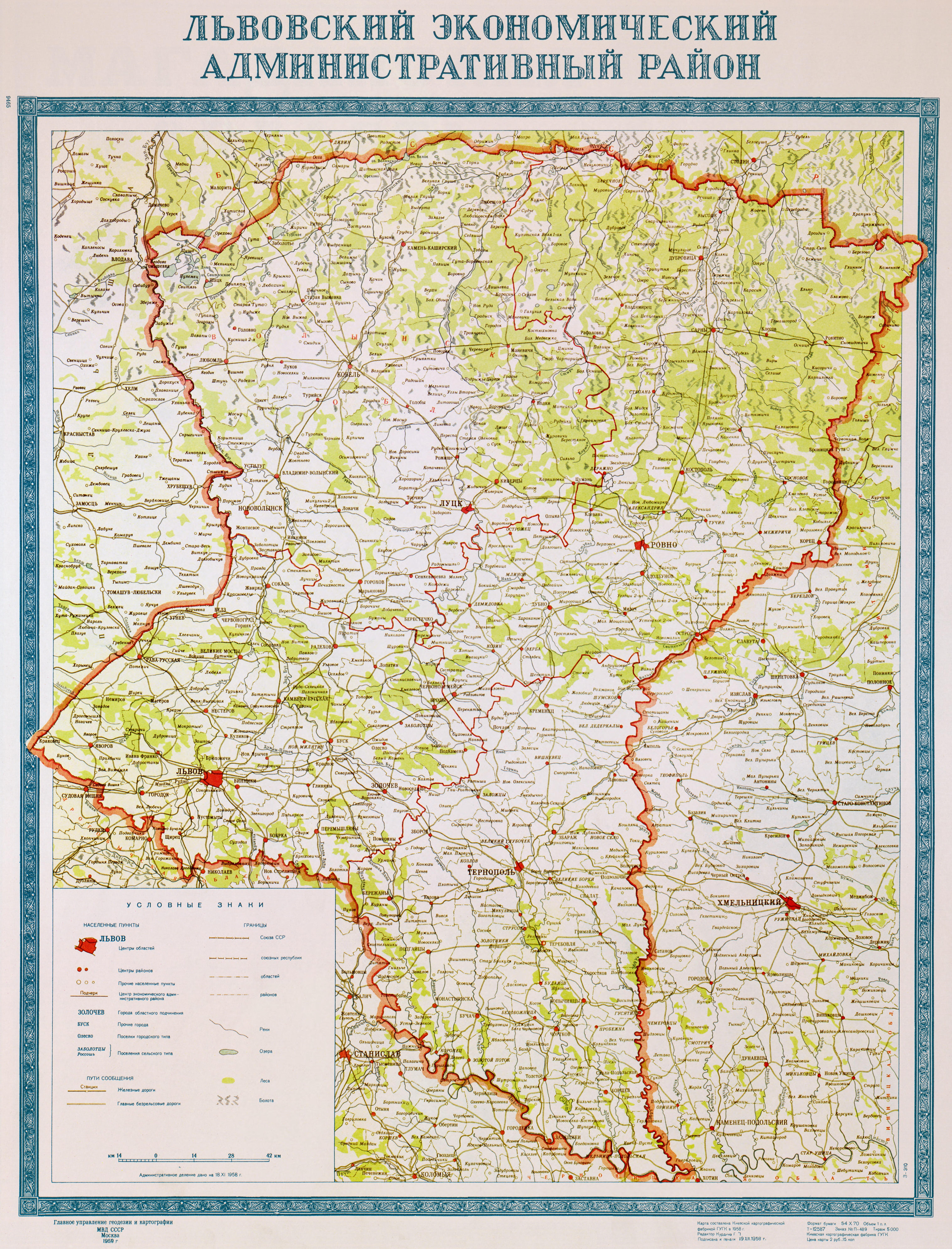 Map of the Economic Administrative Region of Stanislav